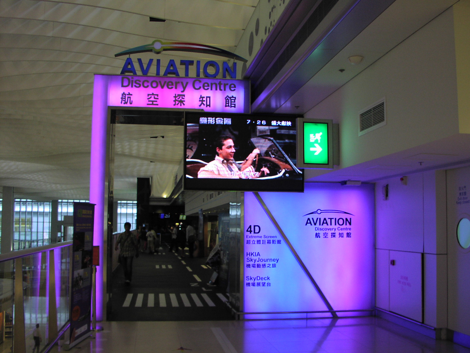 Aviation Discovery Centre